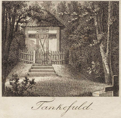 From the romantic garden at Sanderumgård, Odense, Denmark